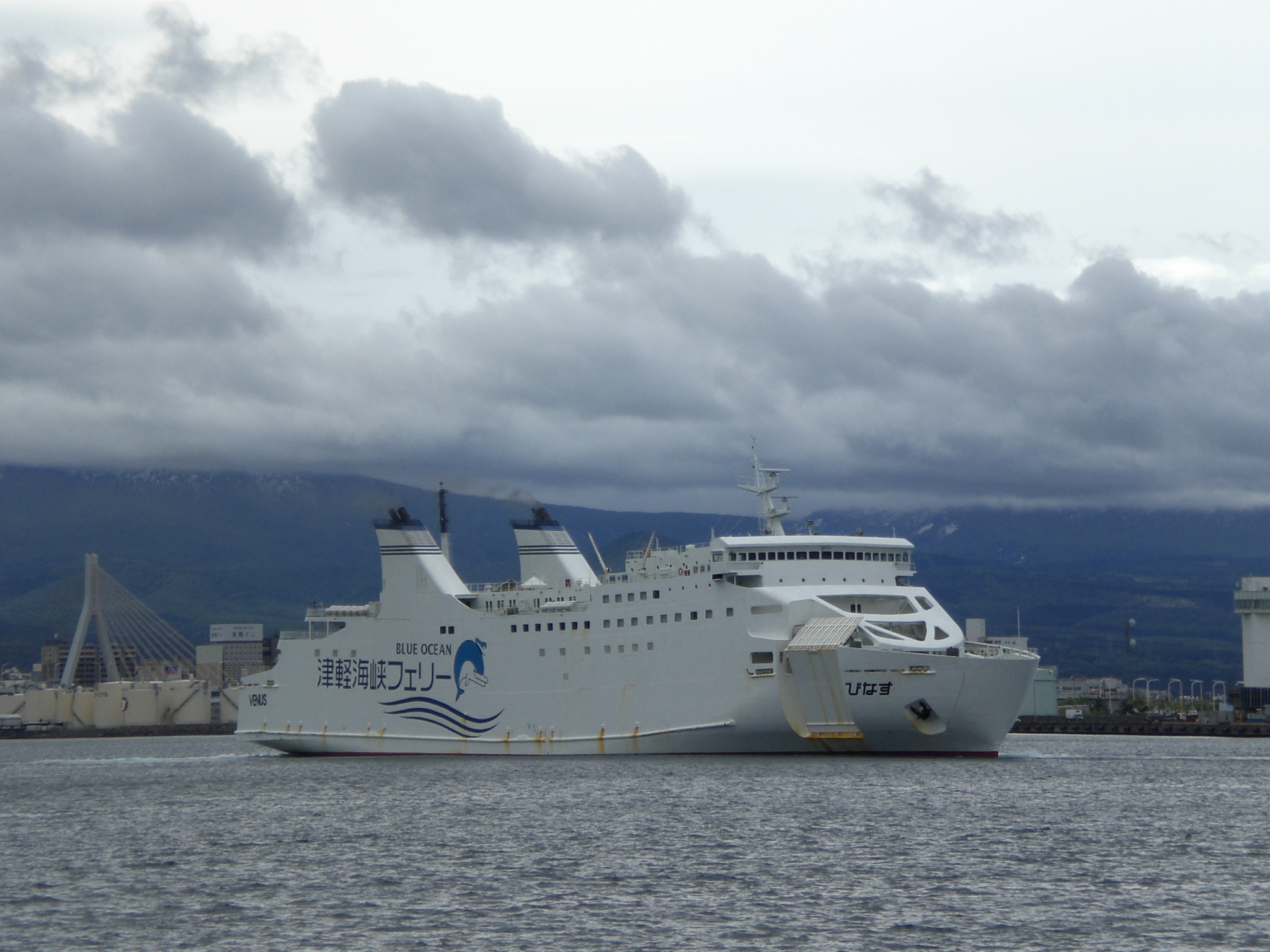 Tsugaru Kaikyo Ferry Venus departing the Aomori Ferry Terminal